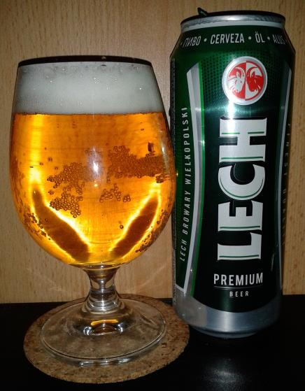 Lech Premium (.50 liter can + unrelated glass)